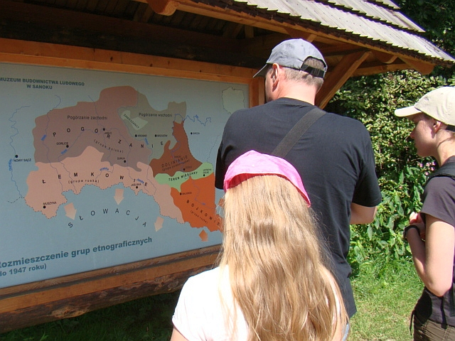 Skansen in Sanok